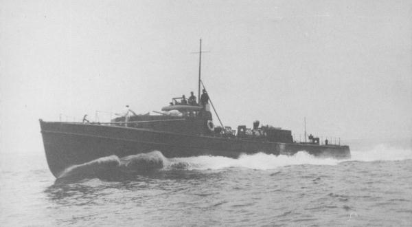 Japanese No.14 Motor Torpedo Boat(type-11) on trial.